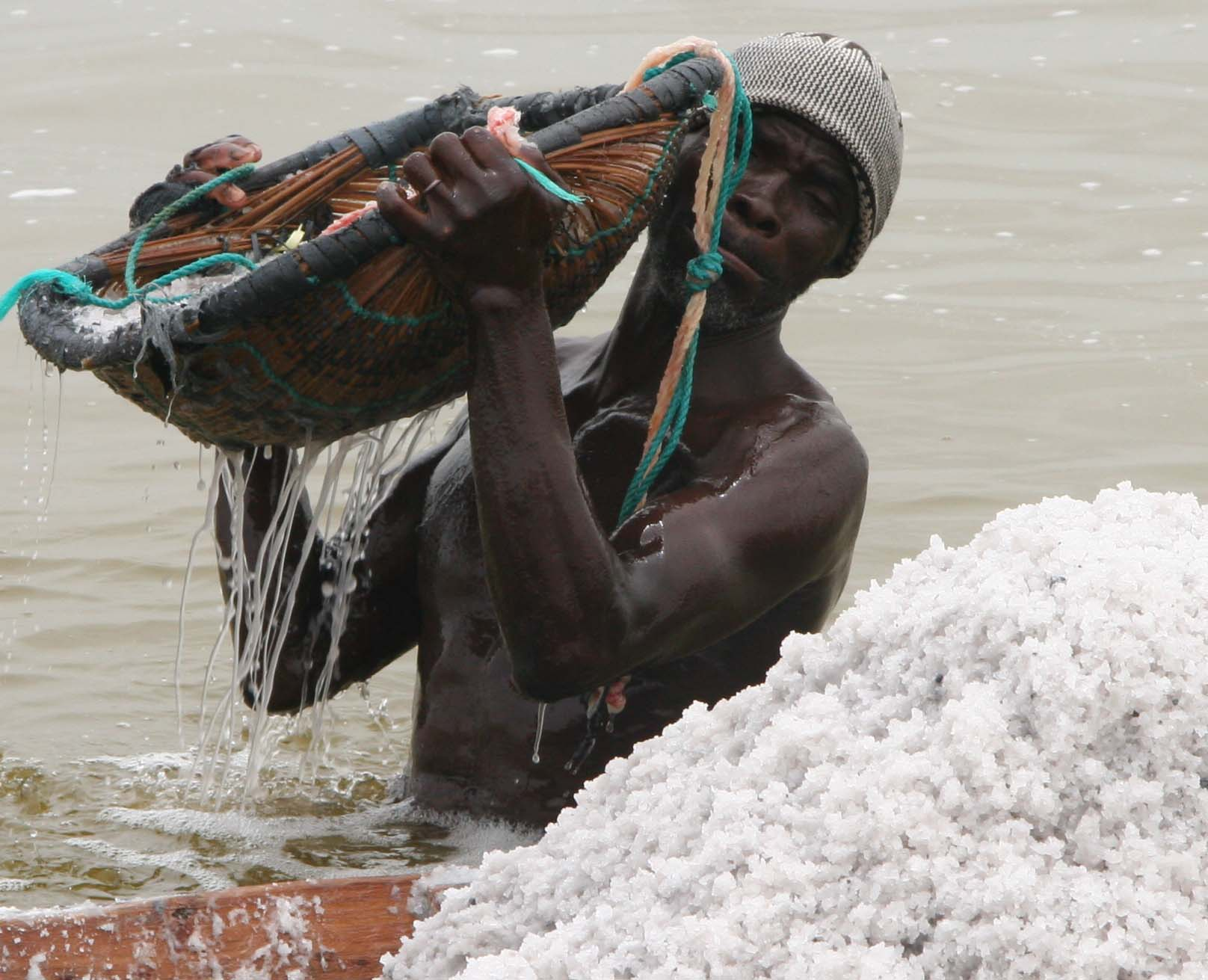 This man spends 6-7 hours a day in water with a salt content close to 40%. In order to protect his skin he rubs himself with "Beurre de Karité" (shea butter, produced from shea nuts obtained from the Shea nut tree), which is an emollient to avoid the skin to burn. The picture is taken in Lac Rose, a pink lake very close to the Atlantic Ocean in Senegal not far away from Dakar. Six days a week he manages to harvest about a ton of salt per day, which is loaded in a small wooden boat. When the boat is fully loaded with salt he returns to the shore and the boat is discharged by his wife and other family members. The salt is sold locally and for exports to other West African countries.